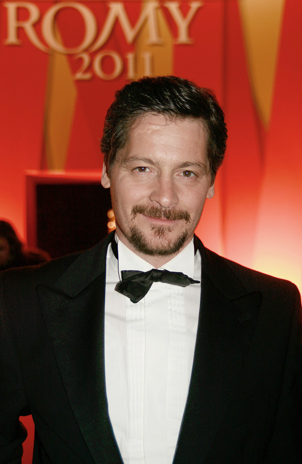 Fritz Karl at the Romy TV awards (Hofburg Imperial Palace in Vienna)